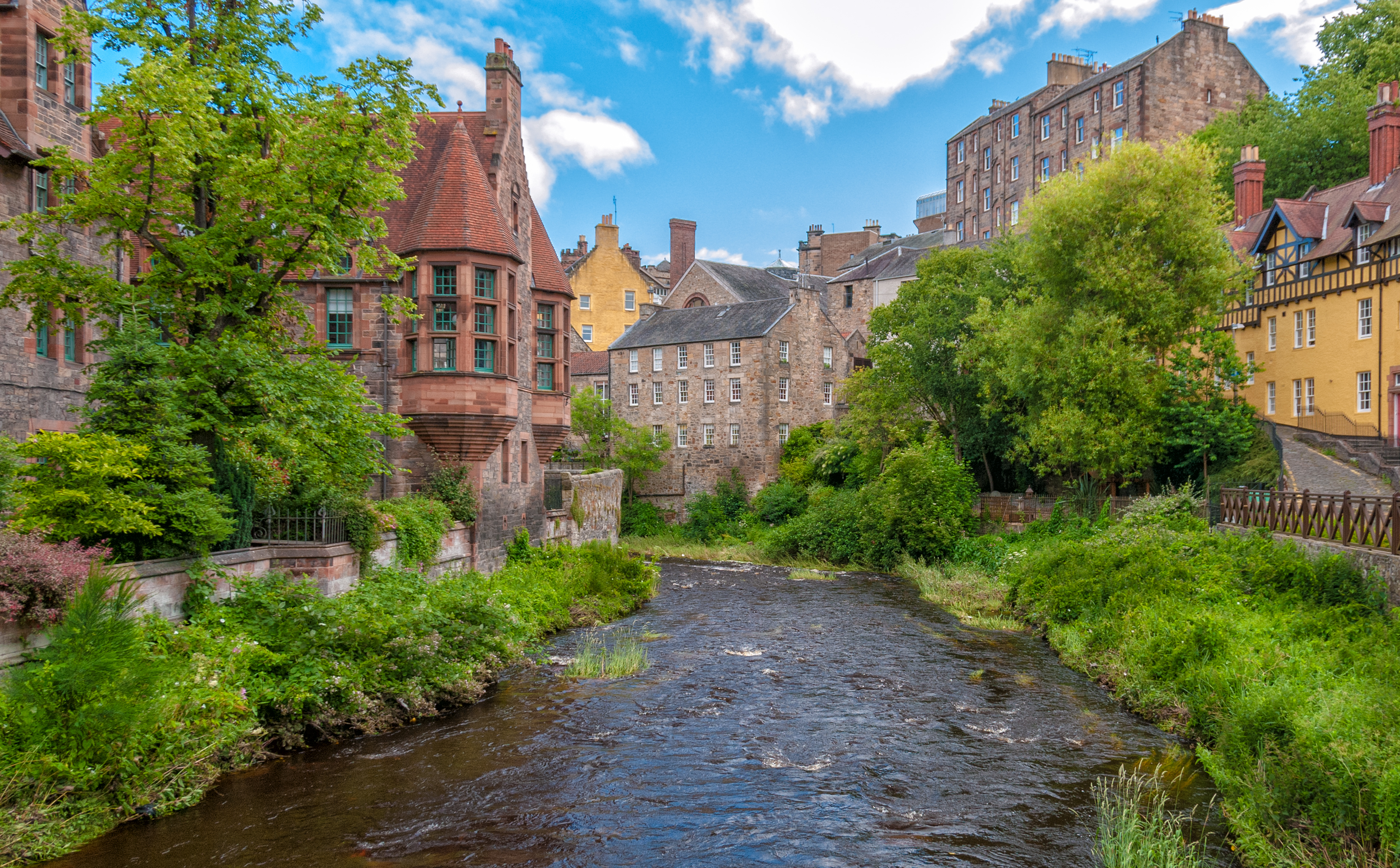 Dean Village, Edinburgh - this image featured here